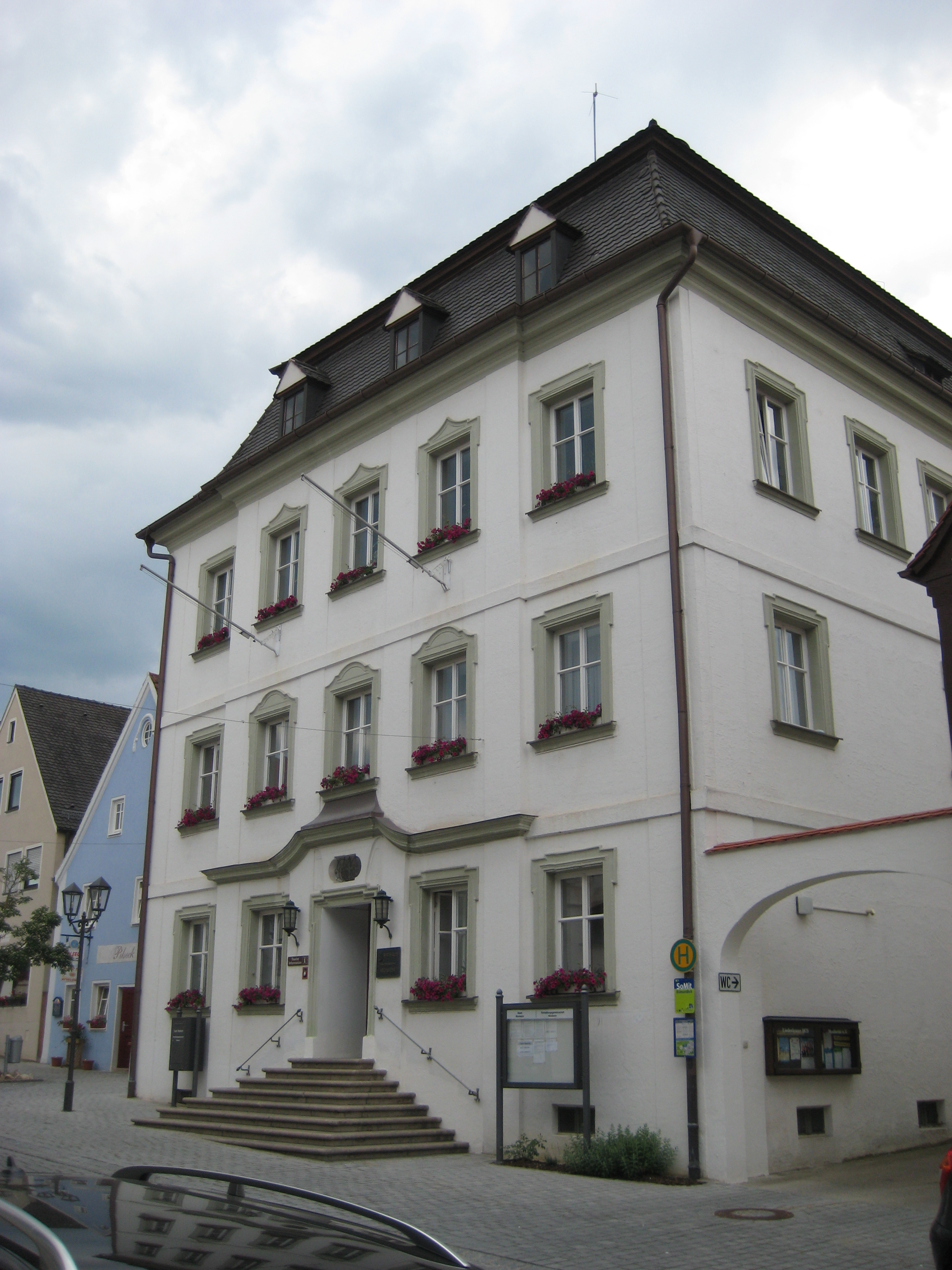 The front of the Monheim Town Hall.